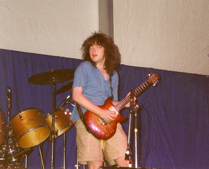 Troy Donockley with You Slosh in 1991